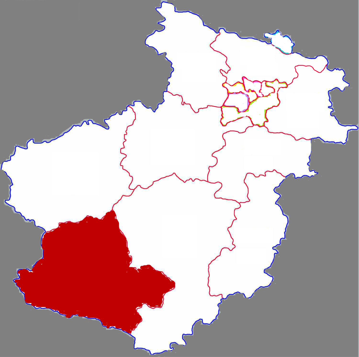 Location of Luanchuan county in Luoyang city, China